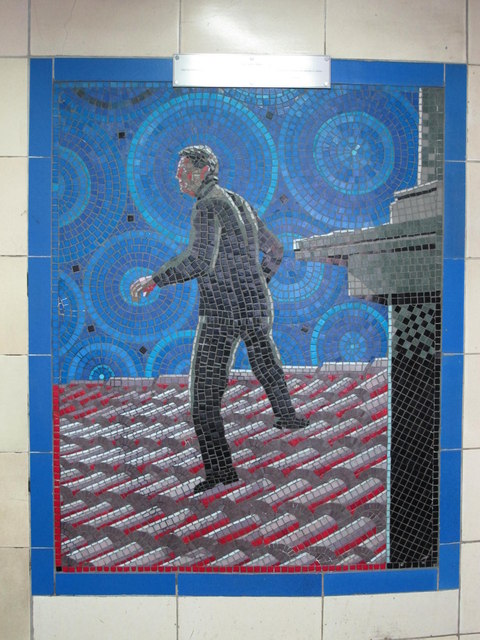 Leytonstone tube station - Hitchcock Gallery: To Catch a Thief (1955)